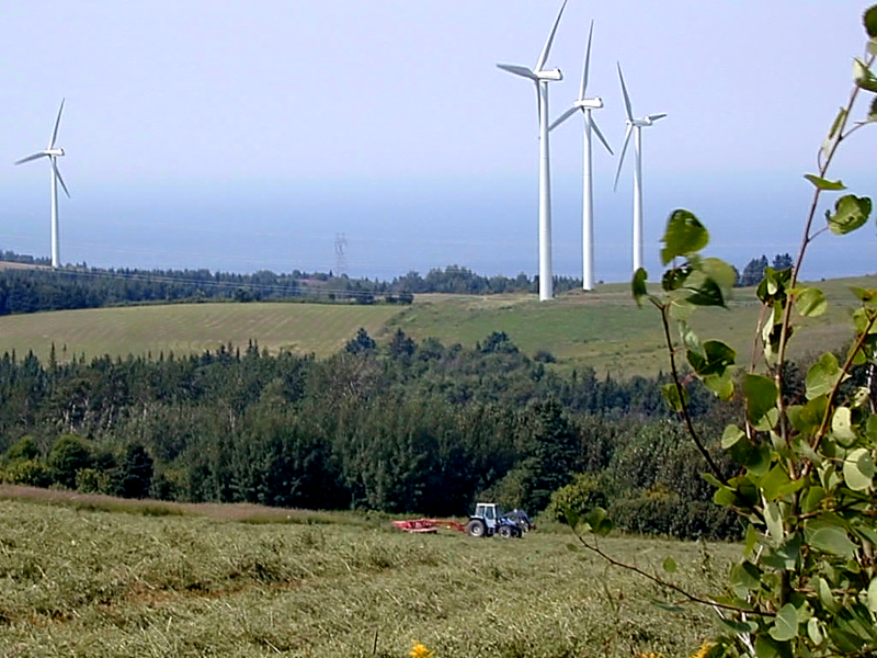 File's original upload information is to be found here